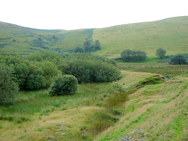 Banc Llety-Spence viewed from Cwmsymlog At the extreme west of the square, looking approximately along the grid square, the area to the right is in the adjoining square. The breached wall of the mine reservoir is on the right.